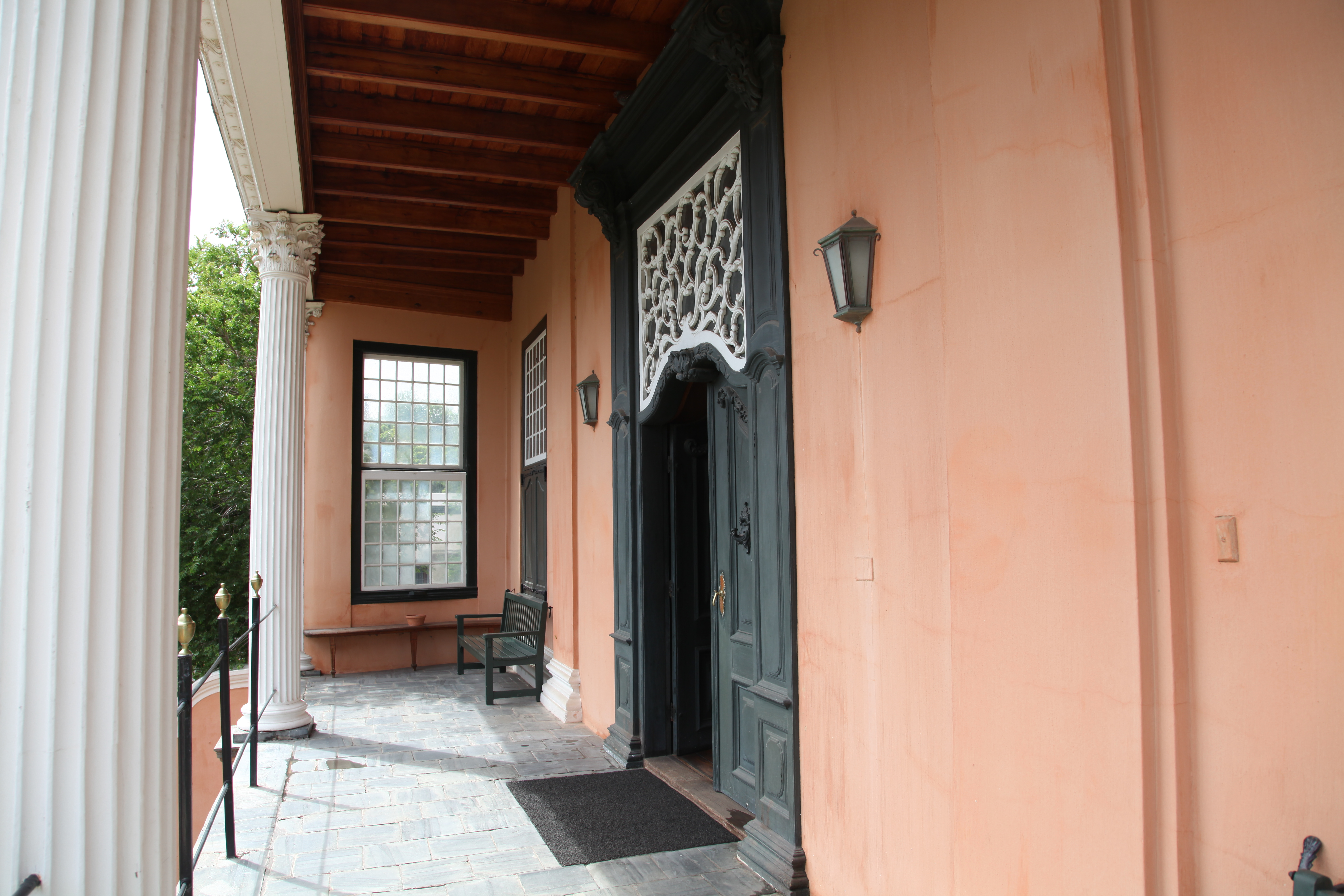 The Rust en Vreugd front porch with doors embellished by Anton Anreith.